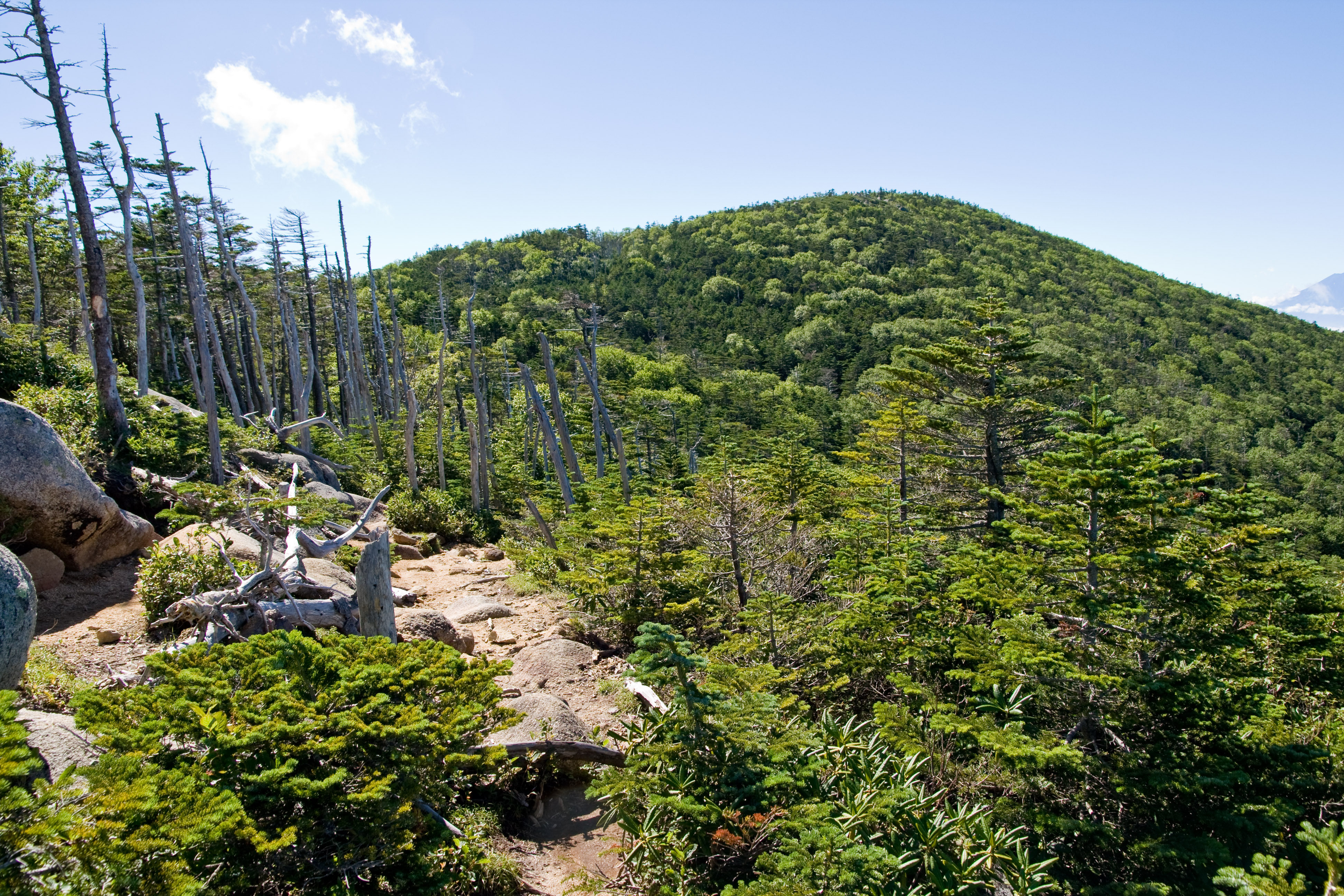 Mt.Kitaokusenjodake, Okuchichibu Mountains, Honshu, Japan.